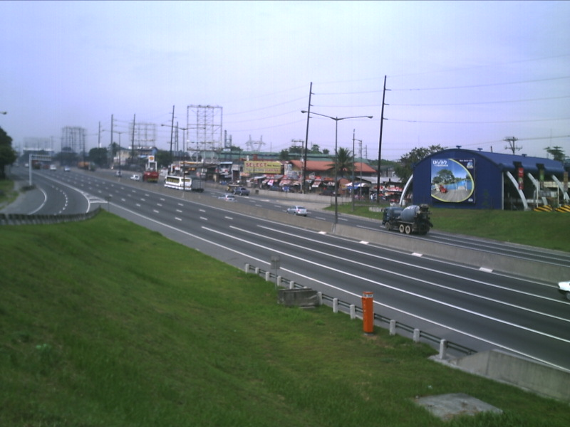 Digital image of the North Luzon Expressway taken from Valenzuela Exit.